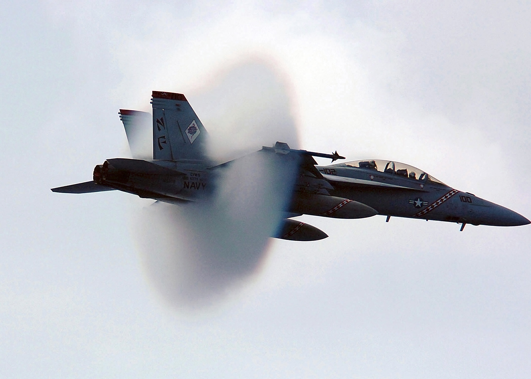 Somewhere over the Philippine Sea a US Navy (USN) F/A-18F Super Hornet, Strike Fighter Squadron 102 (VFA-102), Diamondbacks, Naval Air Station (NAS) Atsugi, Japan (JPN), breaks the sound barrier during a fly-by over the aircraft carrier USS KITTY HAWK (CV 63) [not shown].